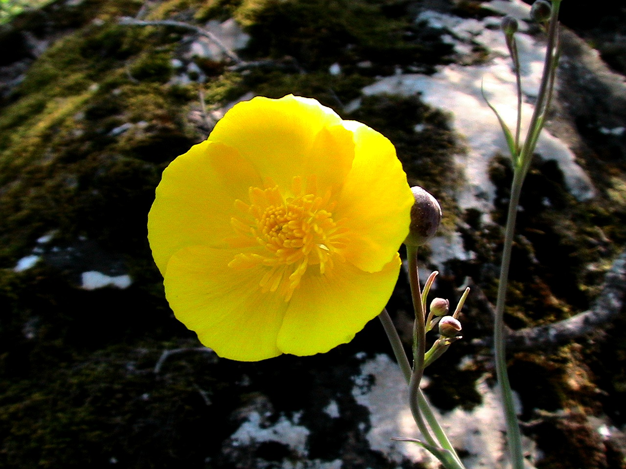 Ranunculus gramineus. In Torà (Segarra-Catalunya). To 590 m. altitude